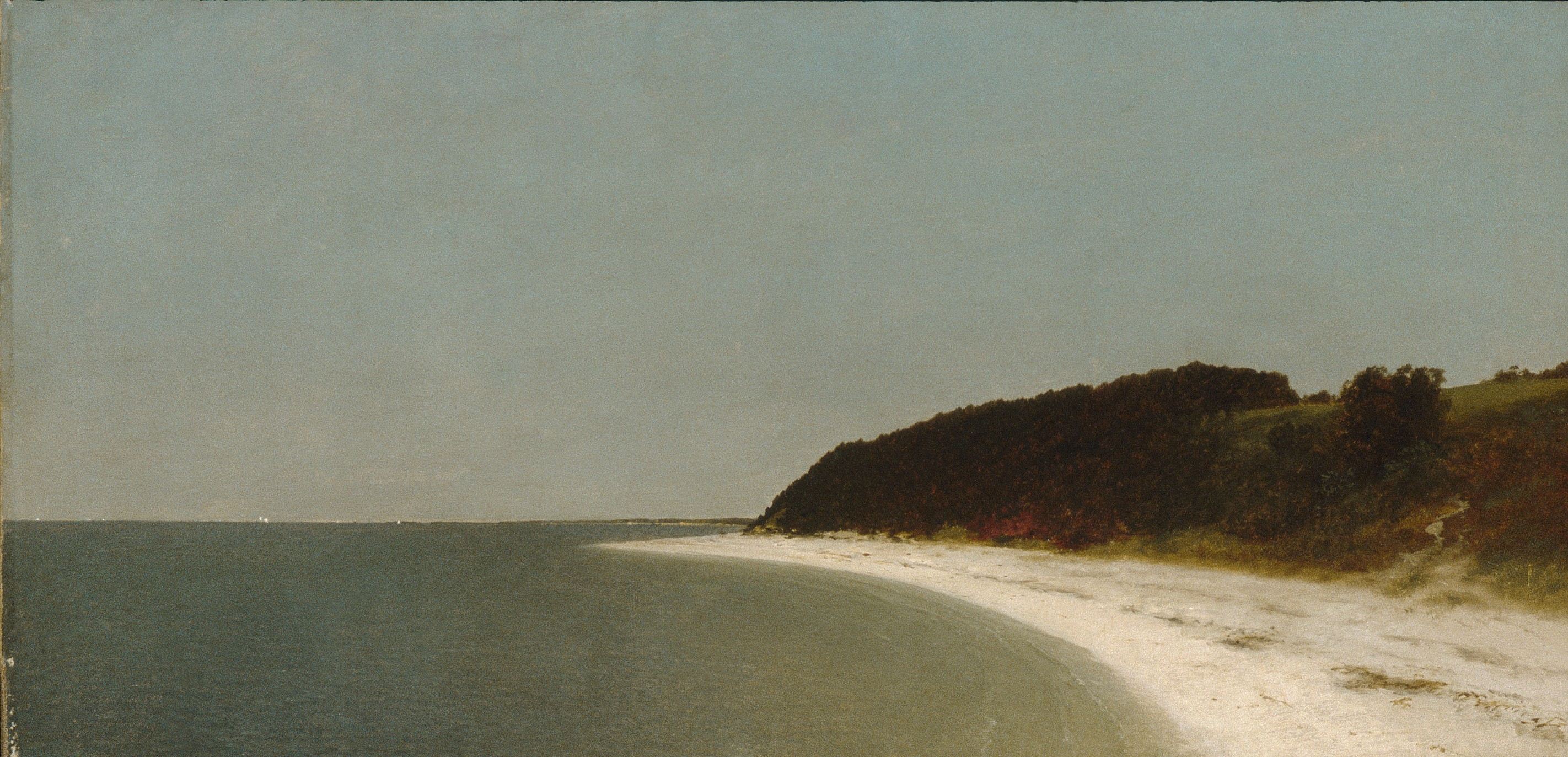 Eaton's Neck, Long Island Artist: John Frederick Kensett (American, Cheshire, Connecticut 1816–1872 New York) Date: 1872 Medium: Oil on canvas Dimensions: 18 x 36 in. (45.7 x 91.4 cm) Classification: Paintings Credit Line: Gift of Thomas Kensett, 1874